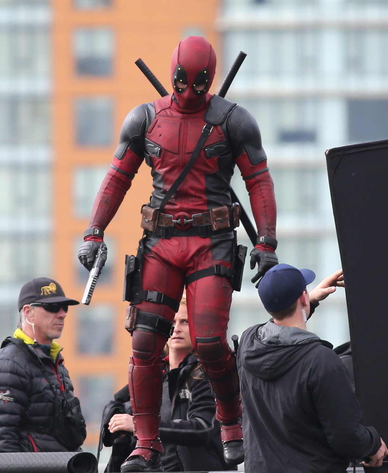 Deadpool, Georgia Viaduct, Vancouver, April 6 2015